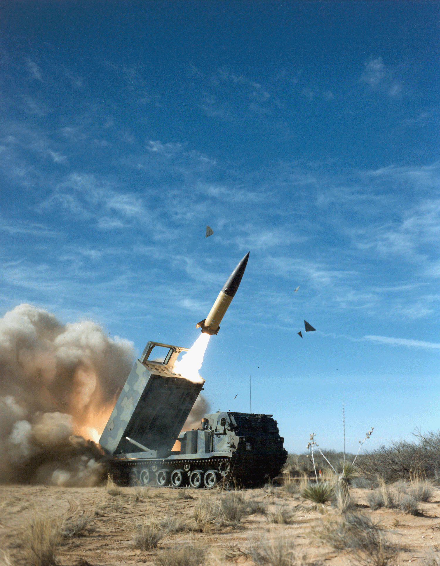 ATACMS Army Tactical Missile System